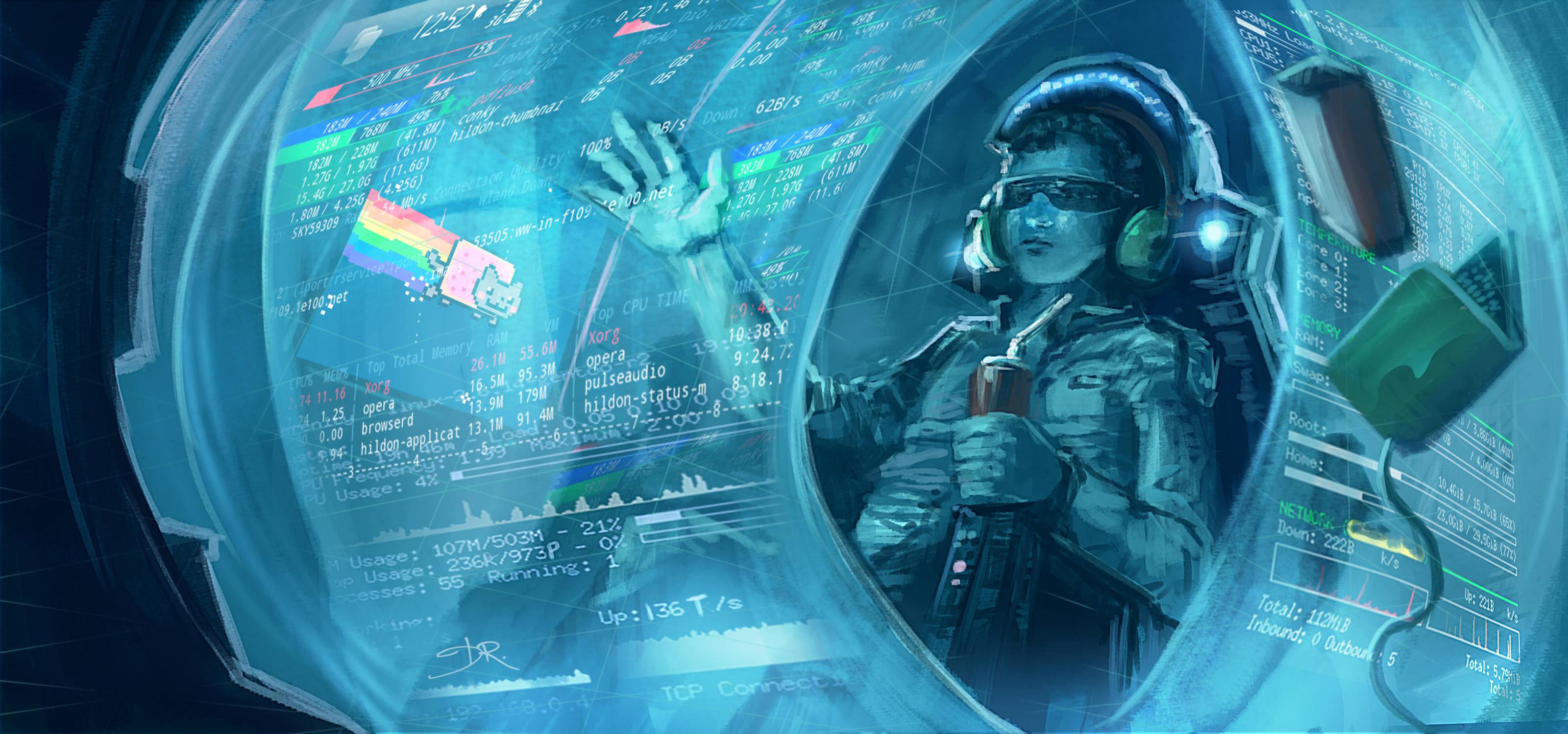 Artwork done by David Revoy for the preproduction of the fourth open movie of the Blender Foundation 'Tears of Steel' ( project Mango ).